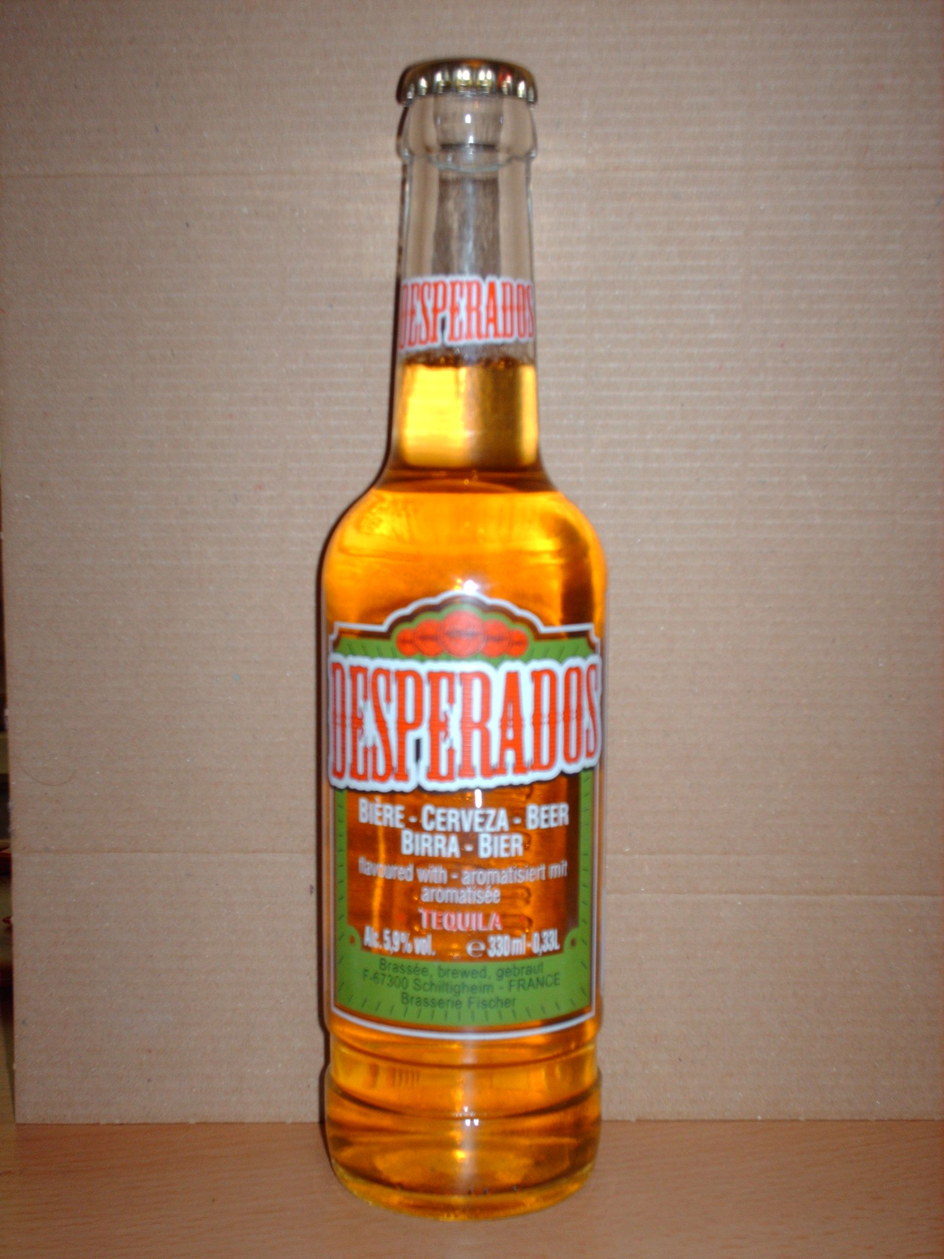 A bottle of Desperados check usage